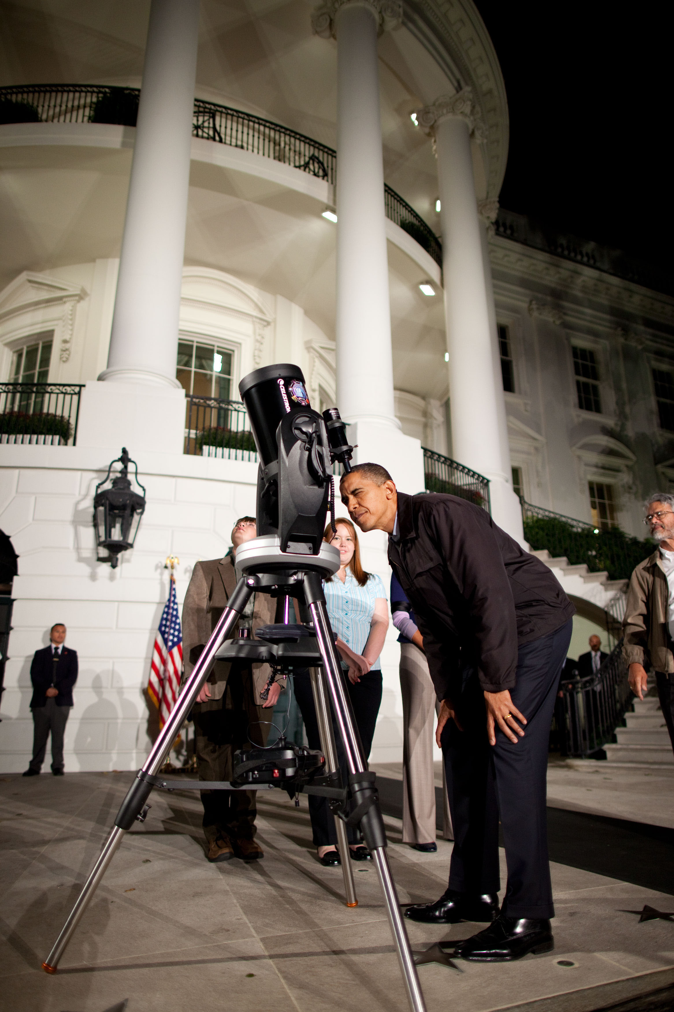 United States President Barack Obama looks through a telescope during an Astronomy Night event on the South Lawn of the White House on Wednesday, 7 October 2009. The President and First Lady, Michelle Obama, hosted the star party to mark the International Year of Astronomy (IYA2009), which celebrated the 400th anniversary of Galileo Galilei's first use of a telescope. The President addressed a group of 150 local school students, and astronauts Buzz Aldrin, Mae Jemison, John Grunsfeld, and Sally Ride also attended. The President's science advisor John Holdren guided the President in viewing a double star in the constellation Lyra through an 8" diffraction limited Schmidt–Cassegrain telescope.